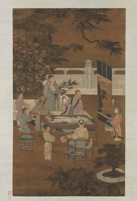 Li Shimin, then Prince of Qin and later Emperor Taizong (reigned 626–649) of the Tang dynasty, established the Institute of Literary Studies and recruited Confucian scholars to serve as its academicians. After ascending the throne, he ordered the imperial artist Yan Liben (circa 601–674) to depict the eighteen scholars and thereby illustrate his virtue in respecting men of learning. Later artists took inspiration of the work to create their own interpretations of the subject. This set of hanging scrolls illustrates scholars engaged in elegant activities associated with the zither (琴), go (棋), calligraphy (書), and painting (畫), which are the known as the Four Arts of the Scholar (四藝合一). The set was catalogued by the Qing imperial editors of Shiju baoji sanbian (石渠寶笈三編) as: The Eighteen Scholars, anonymous, Song dynasty (宋人十八學士圖). However, the National Palace Museum notes that it probably dates to the middle to late Ming dynasty. For further information, see Elegant Pursuits of the Literati: The Eighteen Scholars by an Anonymous Ming Artist (2012 exhibit). Taipei: National Palace Museum.